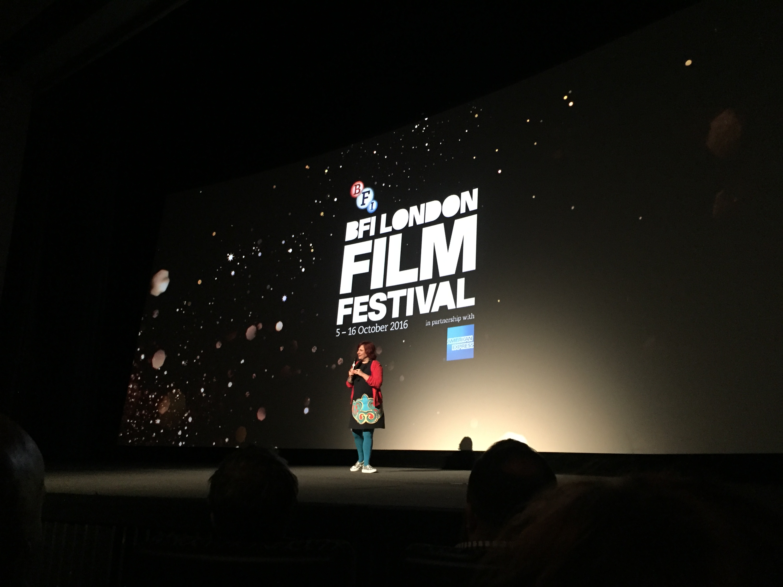 Clare Stewart teases ahead of the surprise film